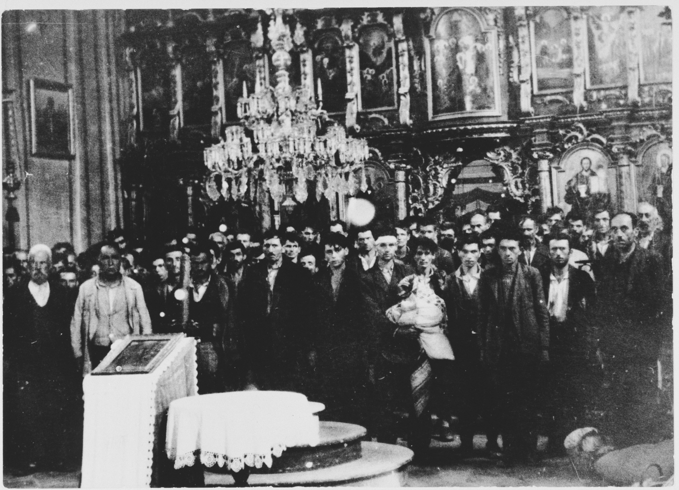 Serbian civilians who are being forced to convert to Catholicism by the Ustasa regime stand in front of a baptismal font in a church in Glina.